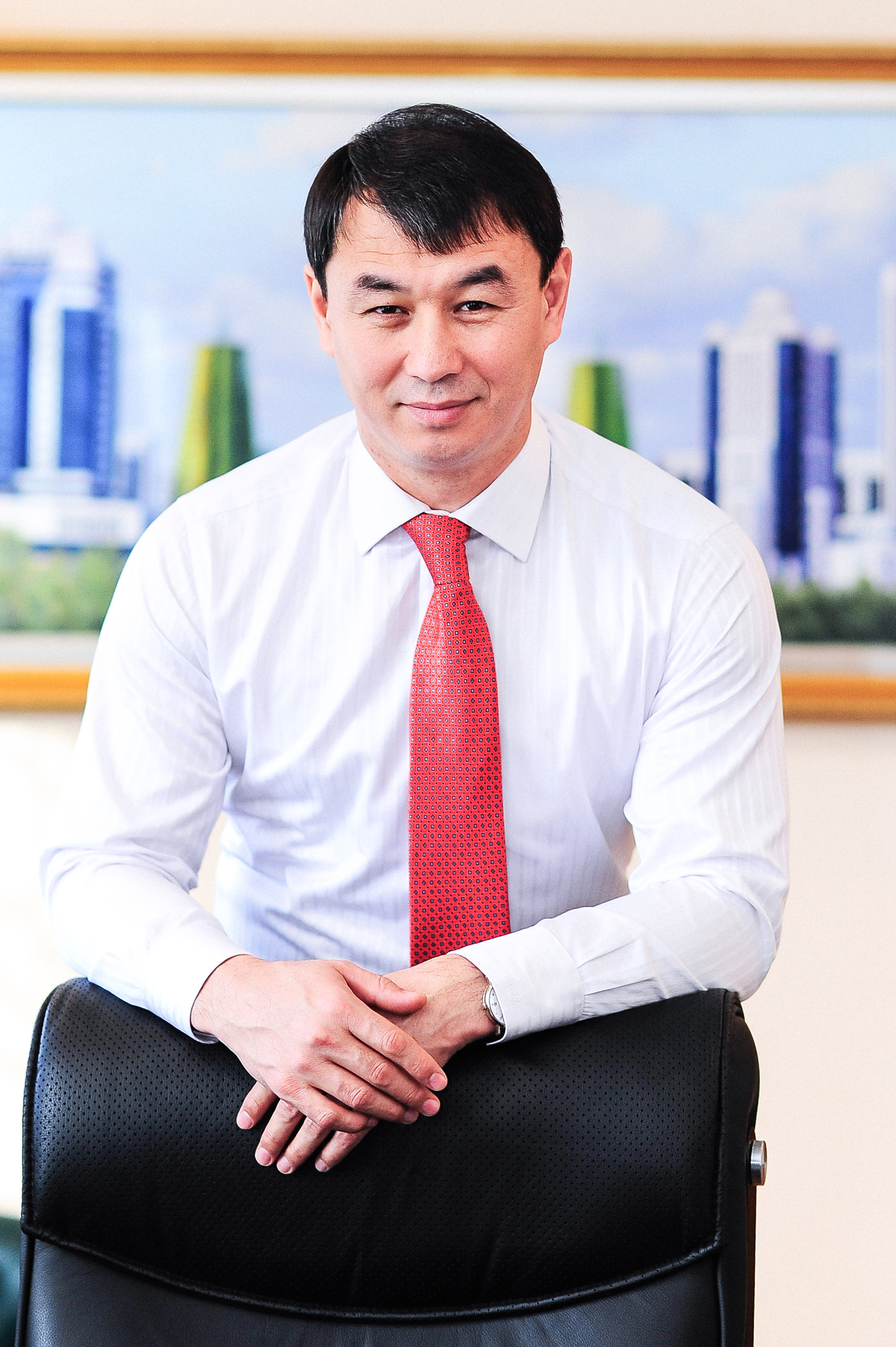 Дархан Сатыбалды